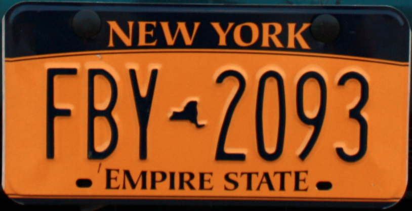 New "gold" New York State vehicle registration plate